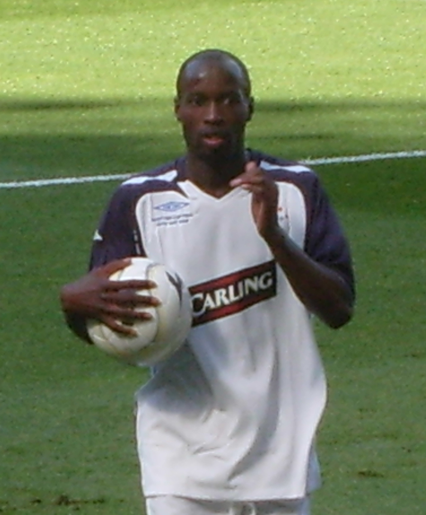 Beasley carries the ball to a corner in the Scottish Cup Final, 2008